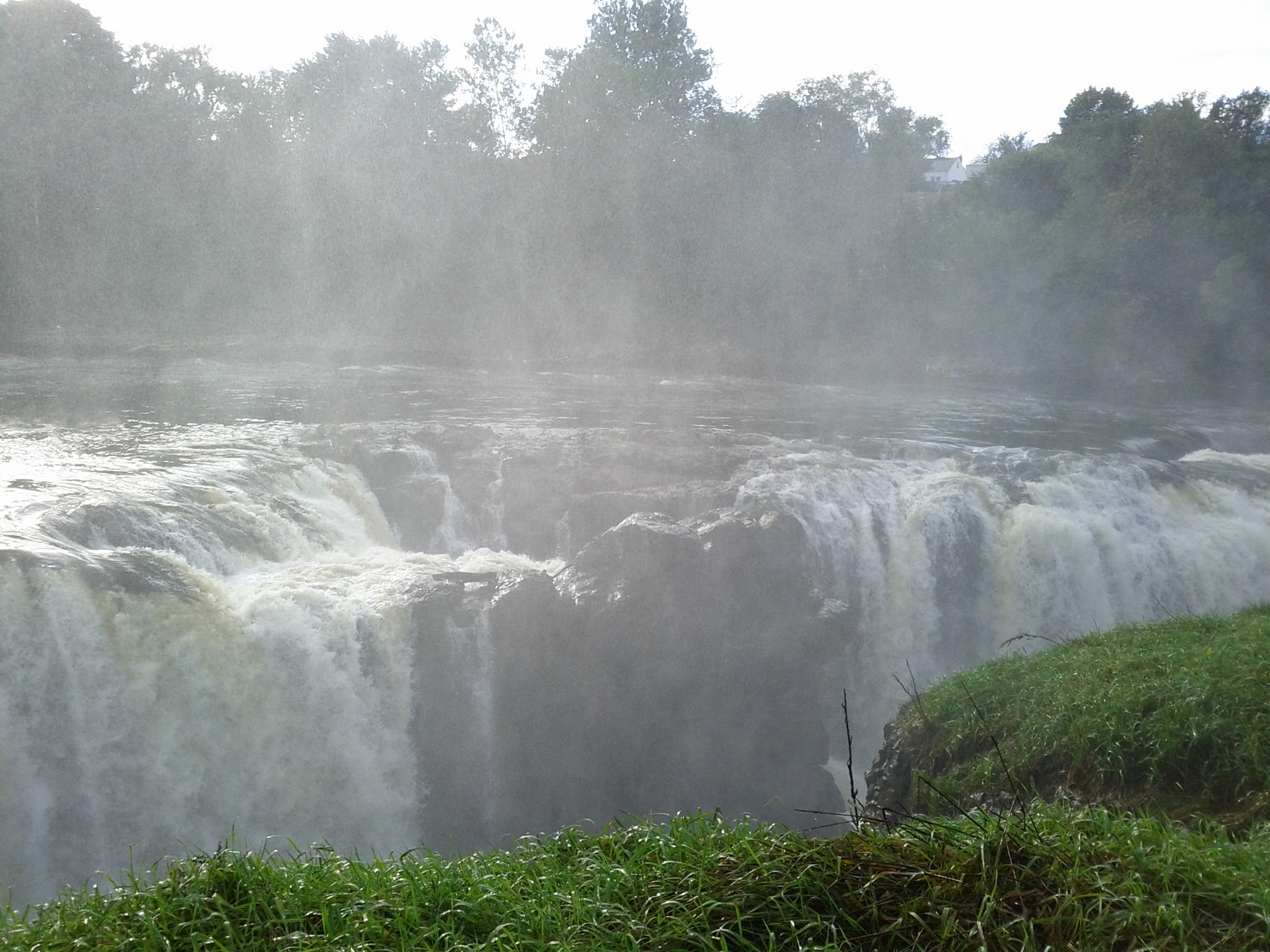 This picture was taken one week after Hurricane Irene swept through the area. As you can see, the river was still very rough.